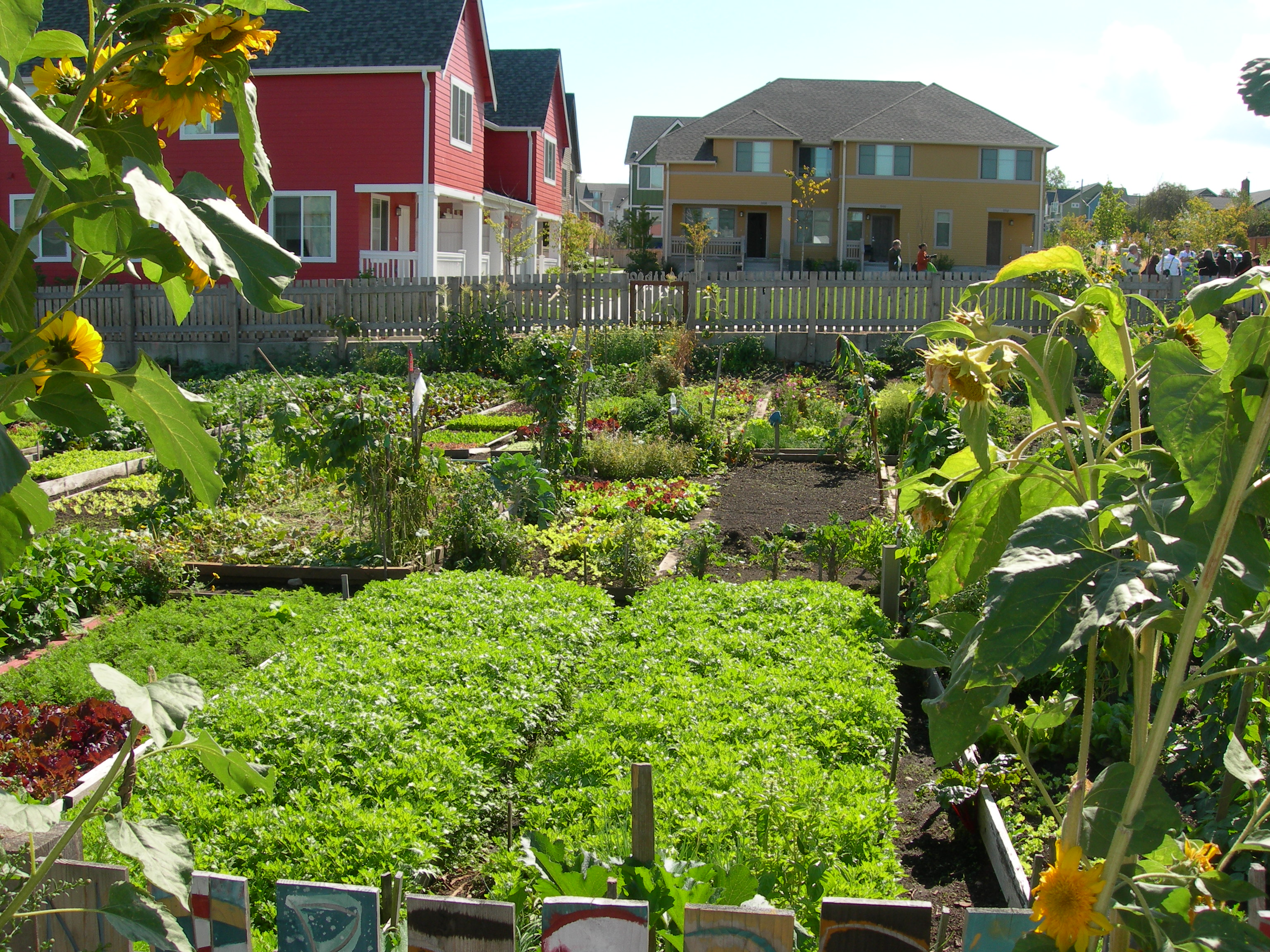 paul symington. community p-patch garden, highpoint west seattle